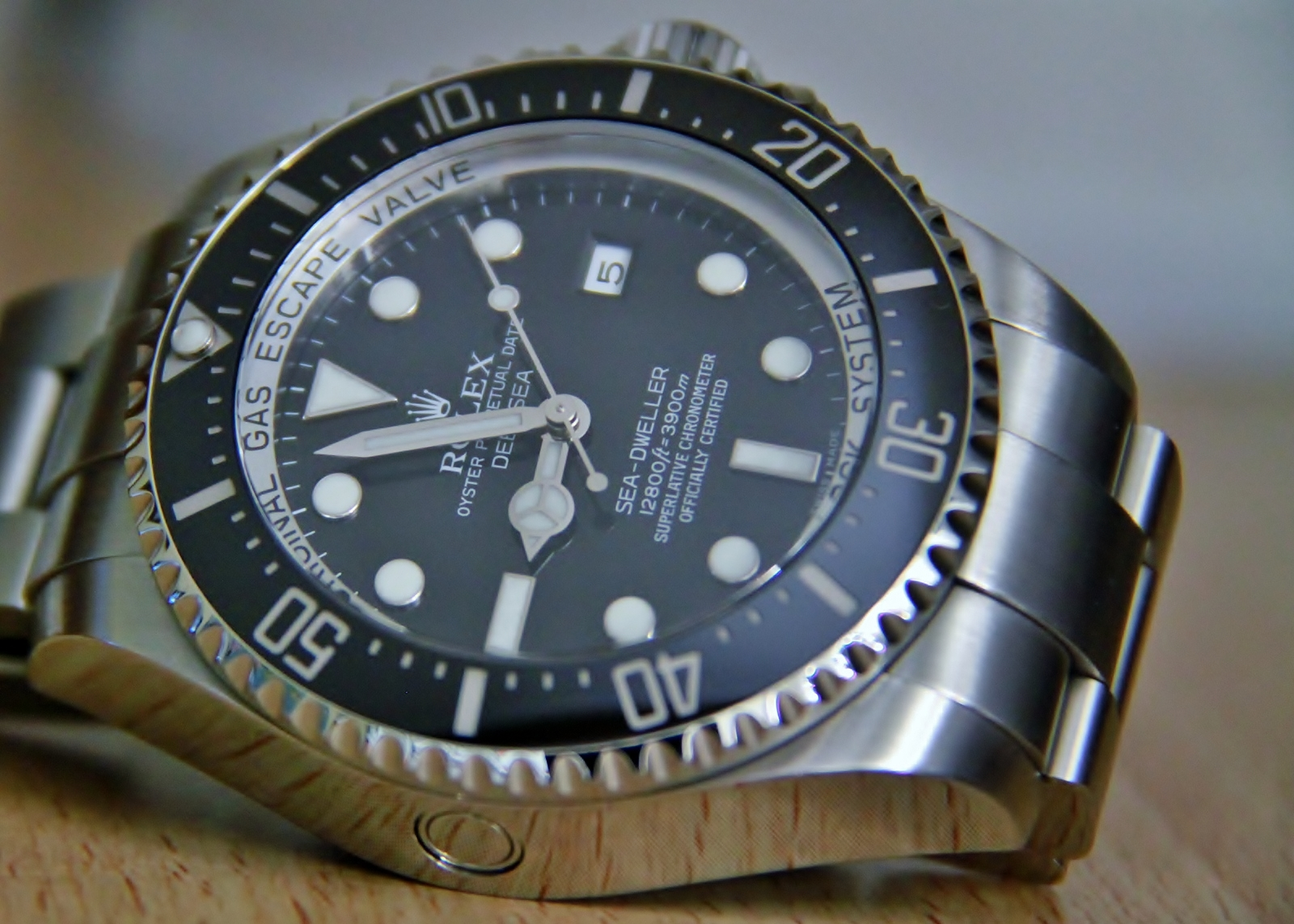 The Rolex Deepsea was released in 2008 , With a 44 mm steel case uses the calibre 3135, Auotmatic mechanical movement , Scratch-resistant domed sapphire crystal and water resistant to 3,900 metres (12,800 feet)